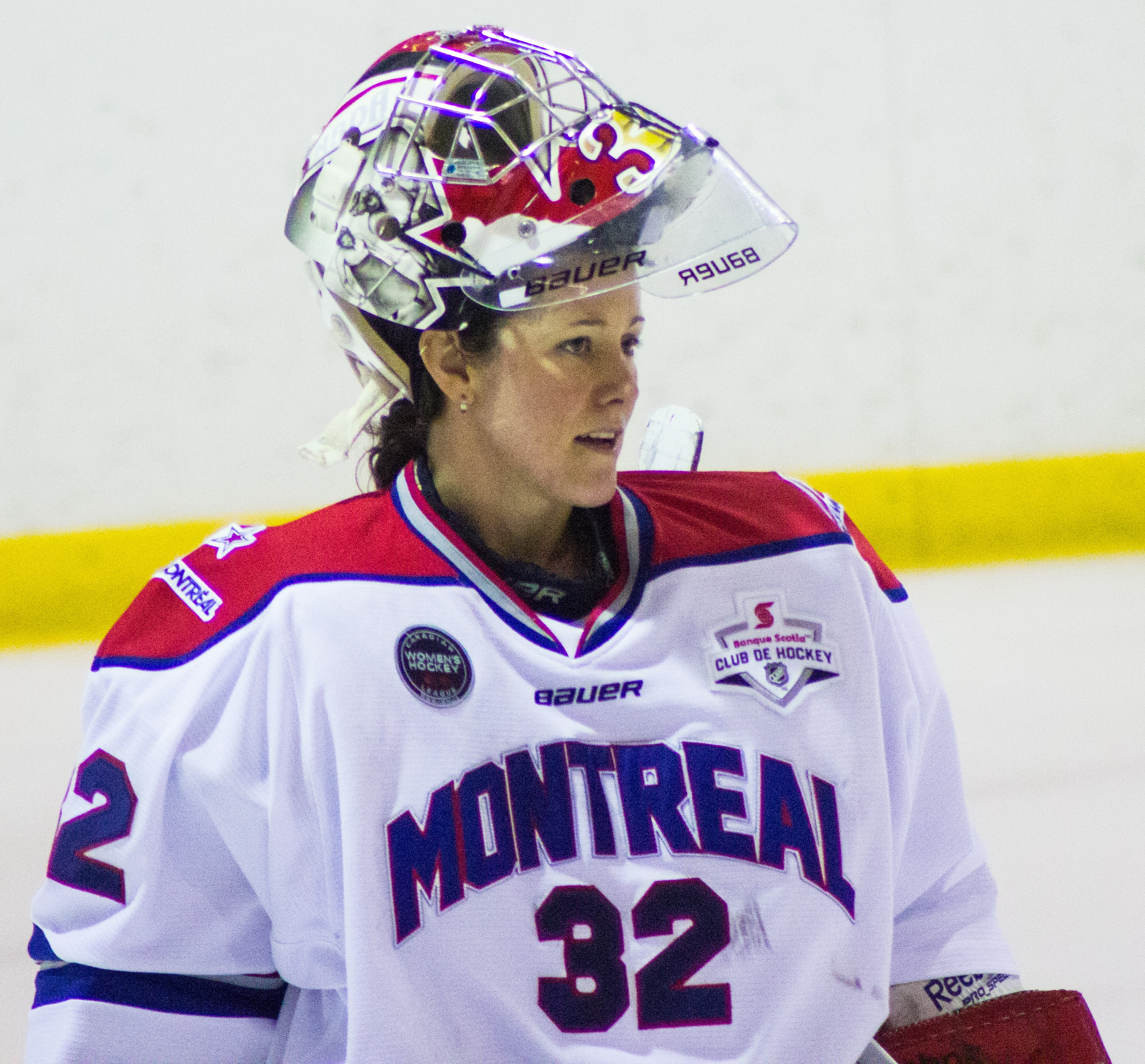 Charline Labonté during a Montreal Stars game versus the Brampton Thunder